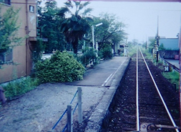 Meitetsu Tanigumi line Nakanomoto Station (2001)